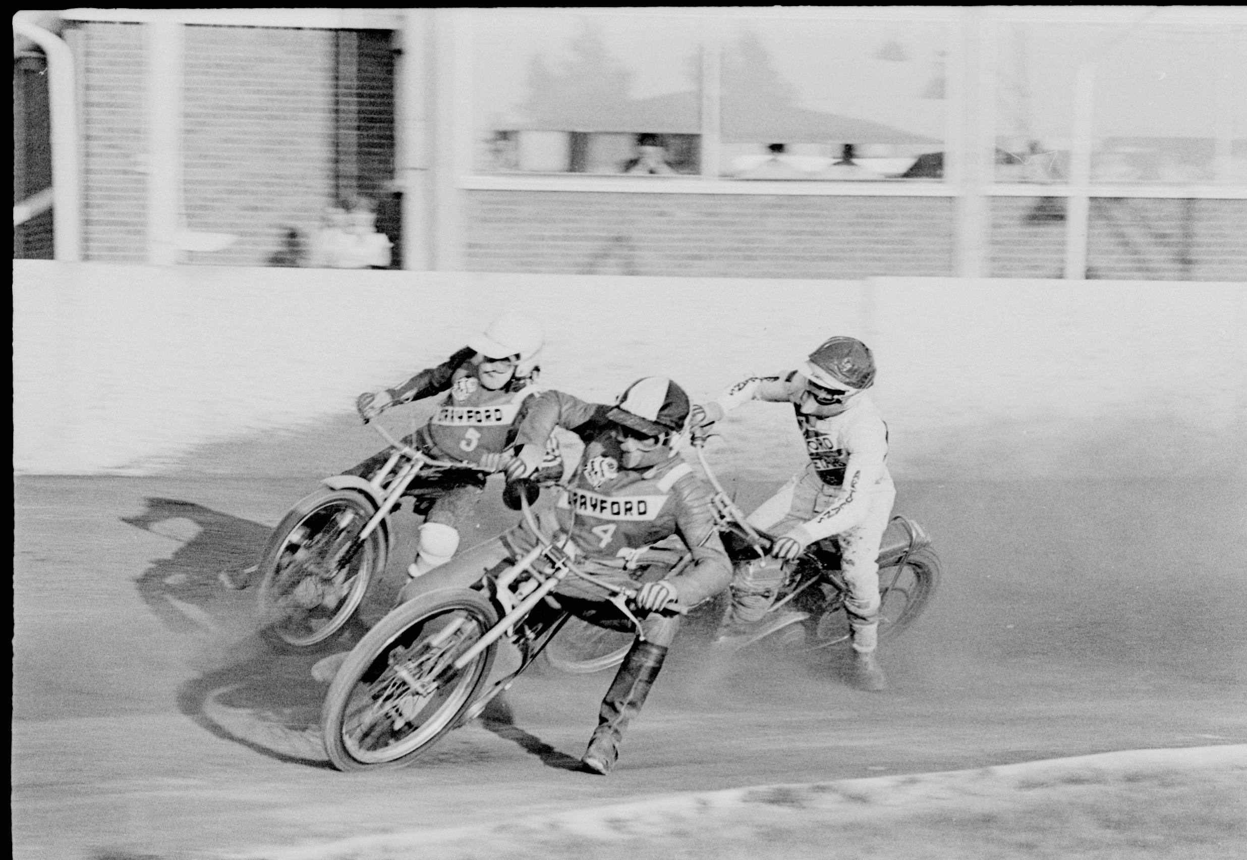 Crayford Kestrels away to Oxford Cheetahs